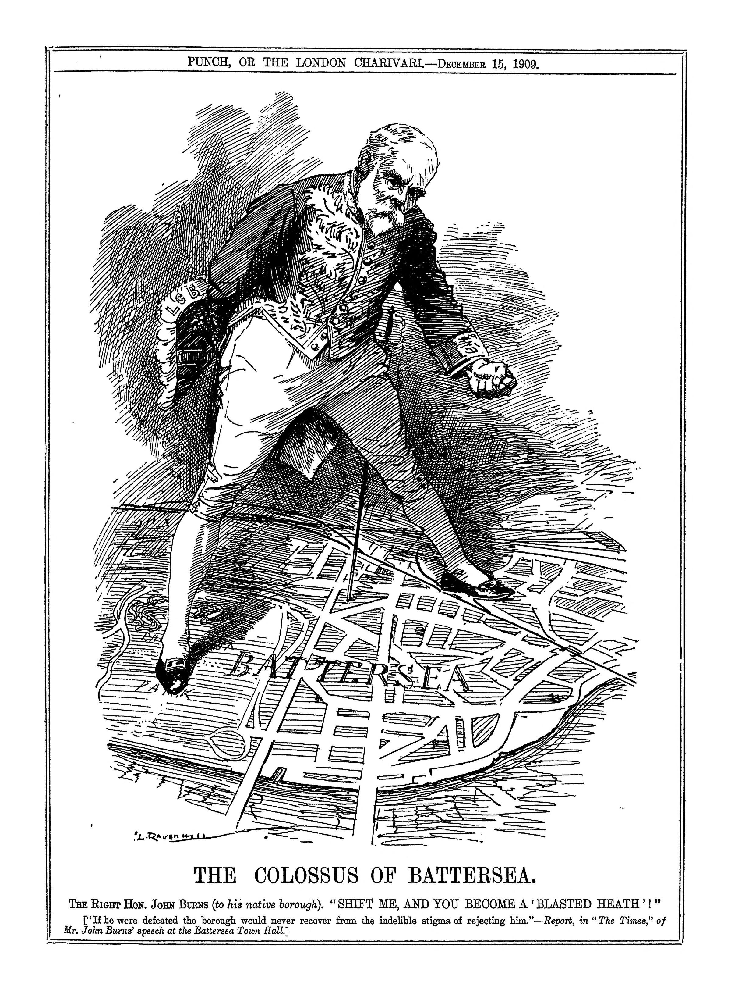 John Burn depicted in a Punch magazine cartoon from the 15 December 1909 edition, drawn by Leonard Raven-Hill, captioned: The Colossus of Battersea The Right Hon. John Burns (to his native borough): "Shift me, and you become a 'blasted heath'" ["If he were defeated the borough would never recover from the indelible stigma of rejecting him" - Report, in "The Times" of Mr. John Burns' speech at the Battersea Town Hall]